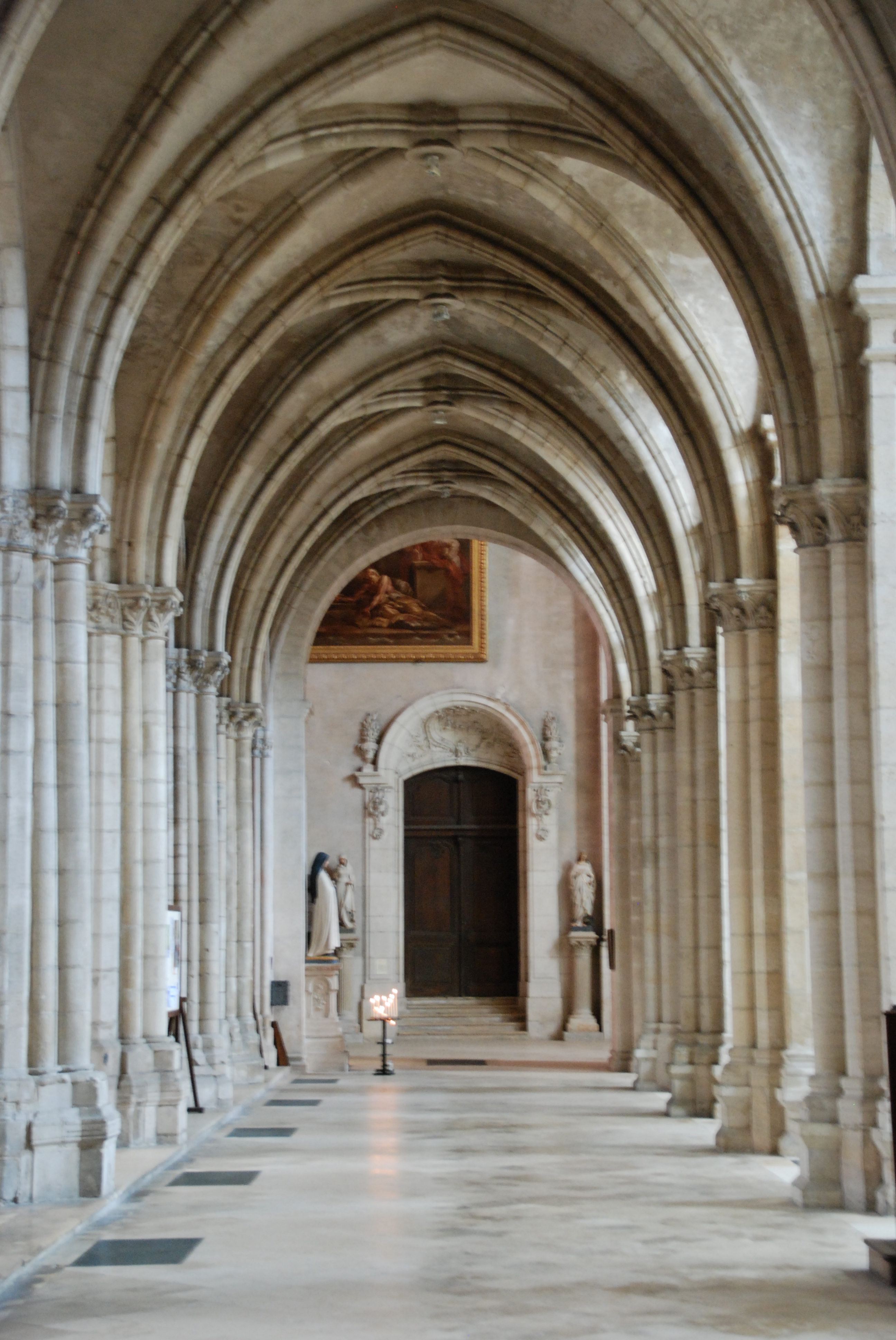 The aisle of the Verdun Cathedral, Meuse, France